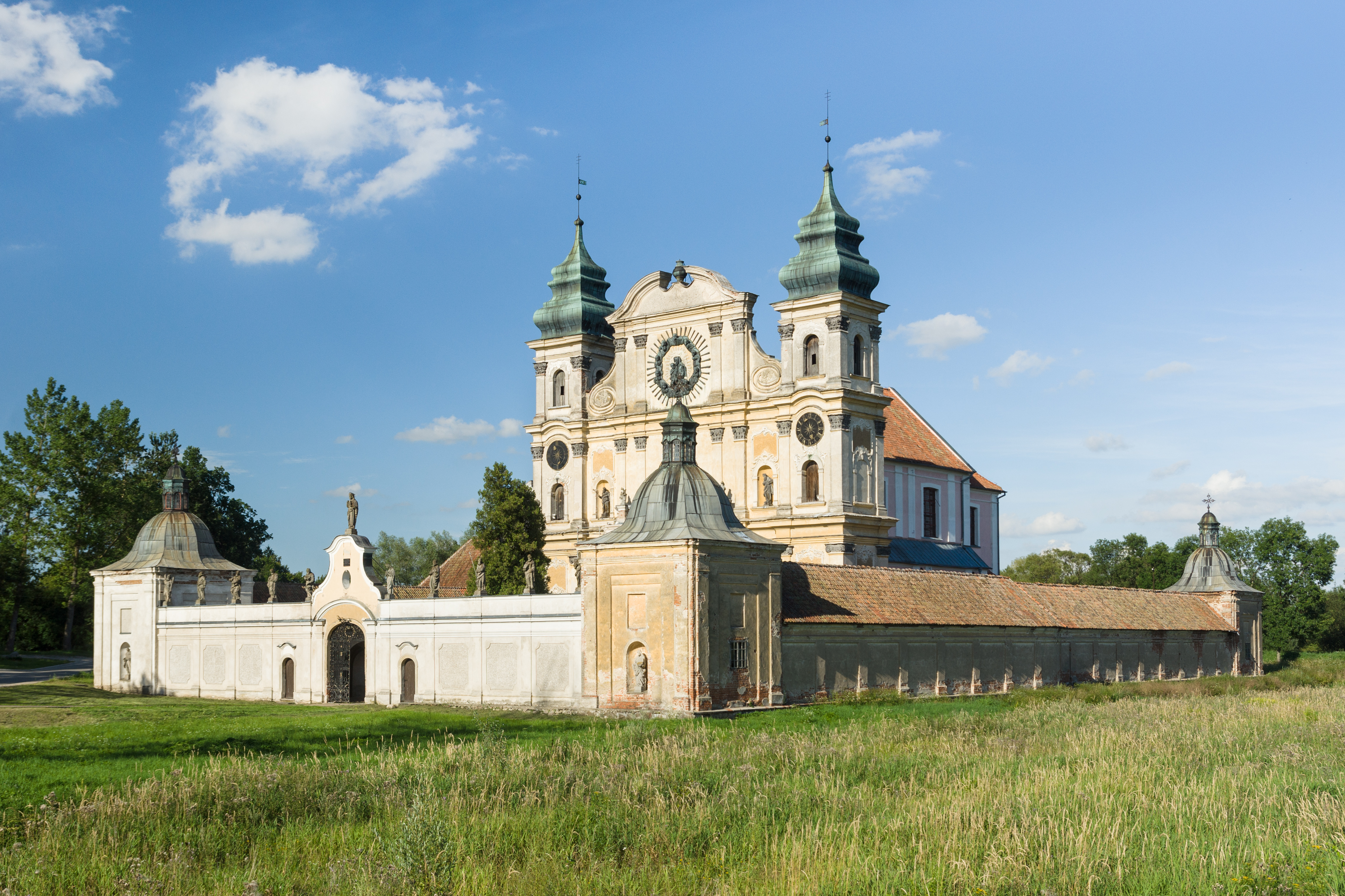 Church of the Visitation in Krosno, Lidzbark County.